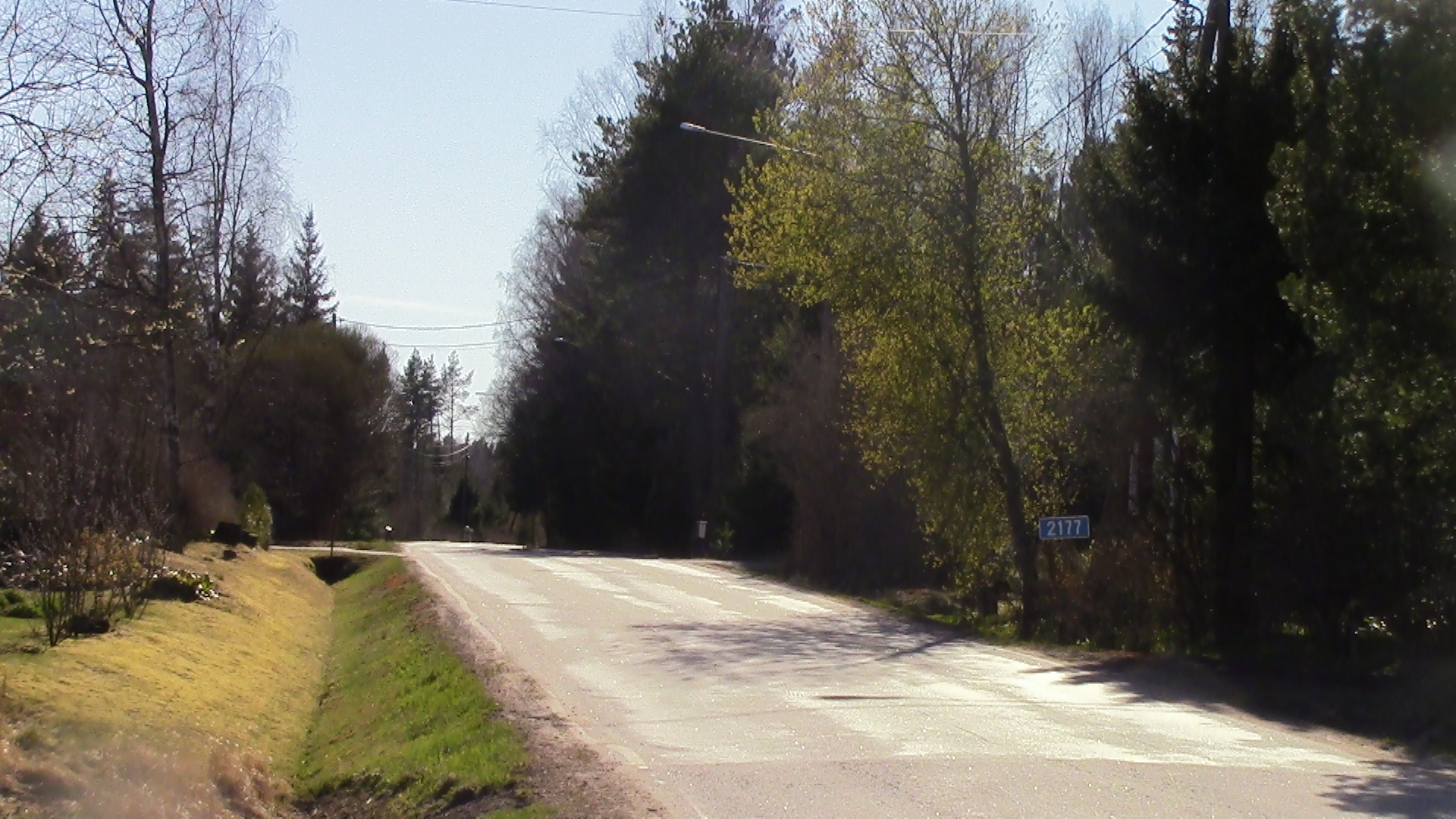 Finnish regional road 2177 at Hormisto in Nakkila. The road runs from Sahari, Luvia to Hormisto.